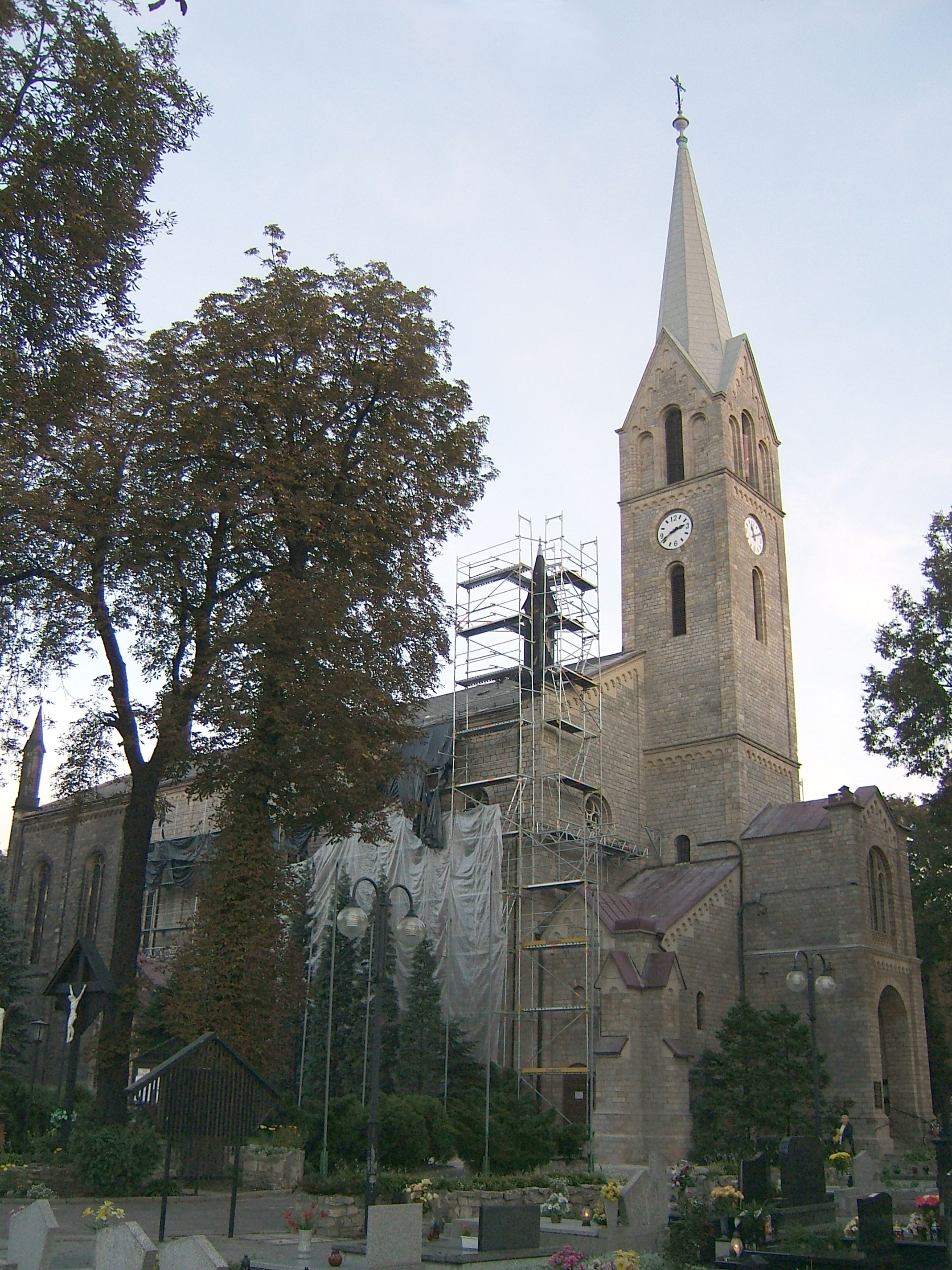 Saint Andrew's Church in Zabrze.